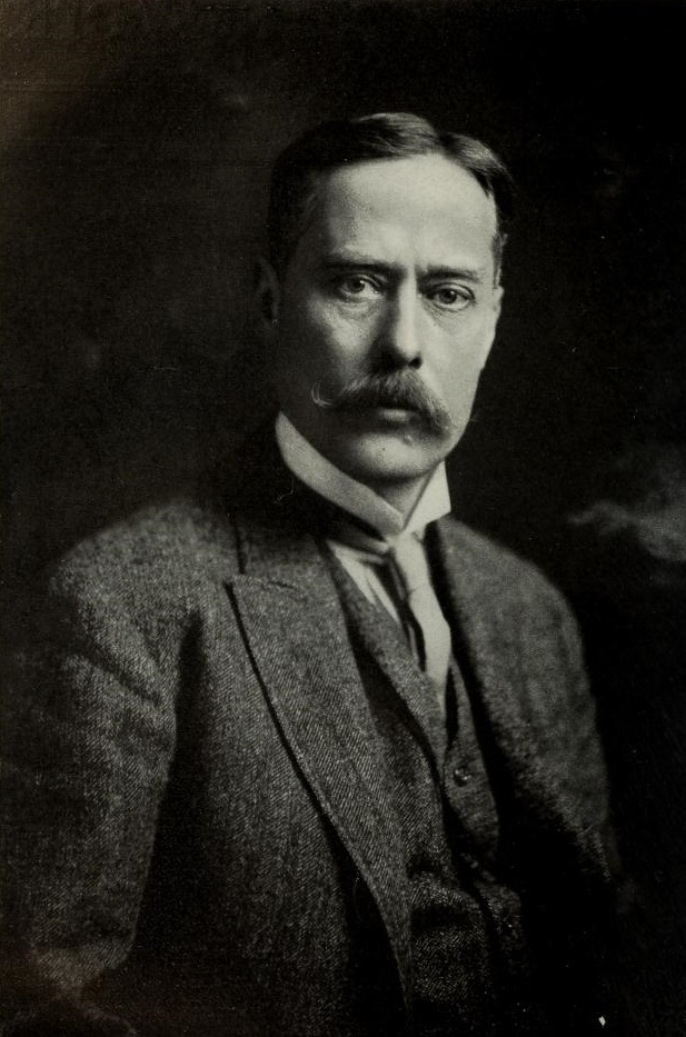 Picture of Frank Johnson Goodnow